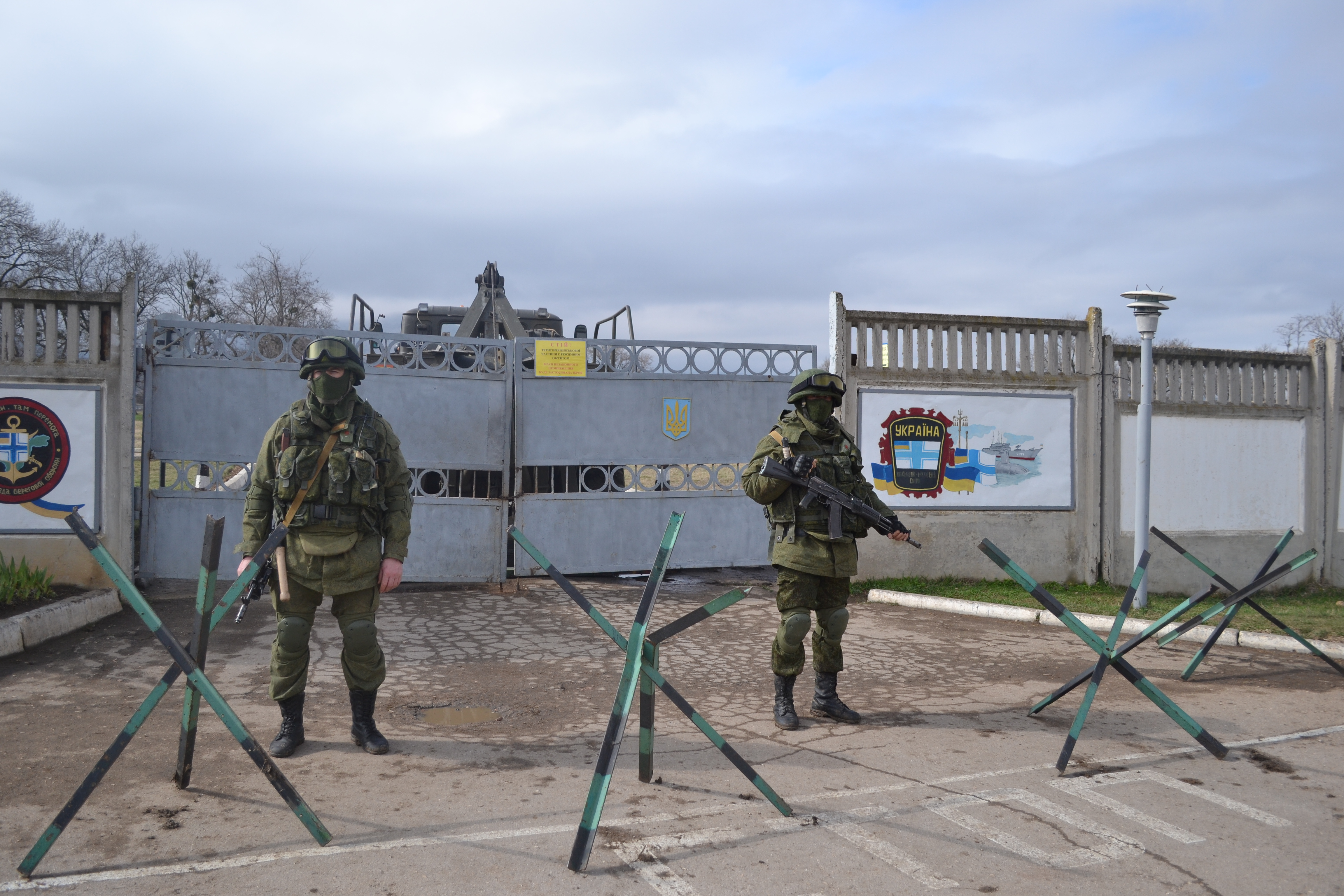 Military base at Perevalne during the 2014 Crimean crisis.